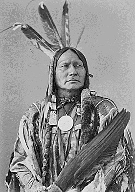 Chief Running Antelope of the Hunkpapa Sioux.